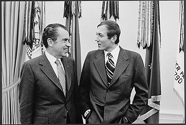 President Nixon meets with Russian poet Yevheny Yevtushenko.